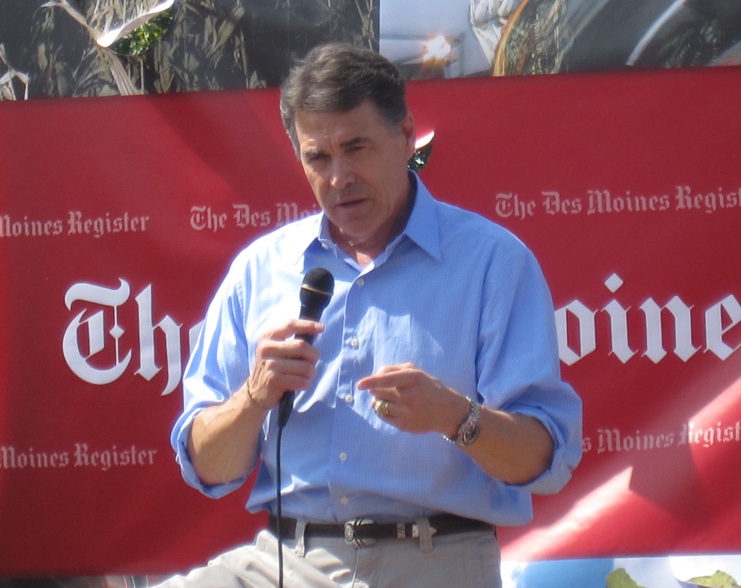 Rick Perry presidential candidate on campaign trail interacting with voters in Iowa. This is at the Iowa State Fair.